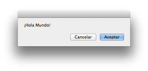 Screenshot of the window obtained after running the Hello World script on AppleScript